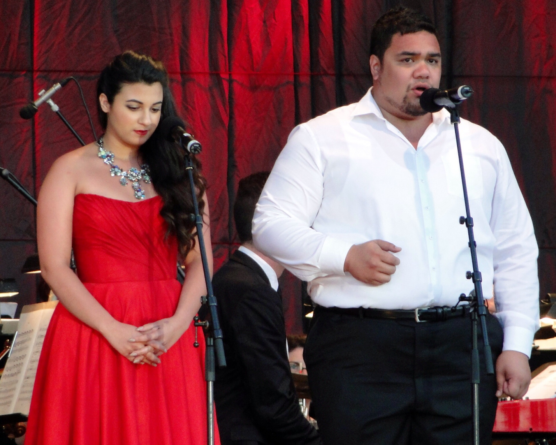 Opera singers Amina Edris and Pene Pati at Nelson "Opera in the Park", February 2014.